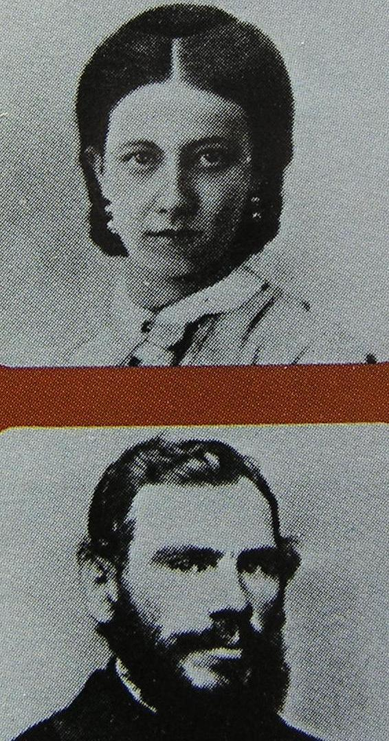 Sofia Tolstaya and Leo Tolstoy